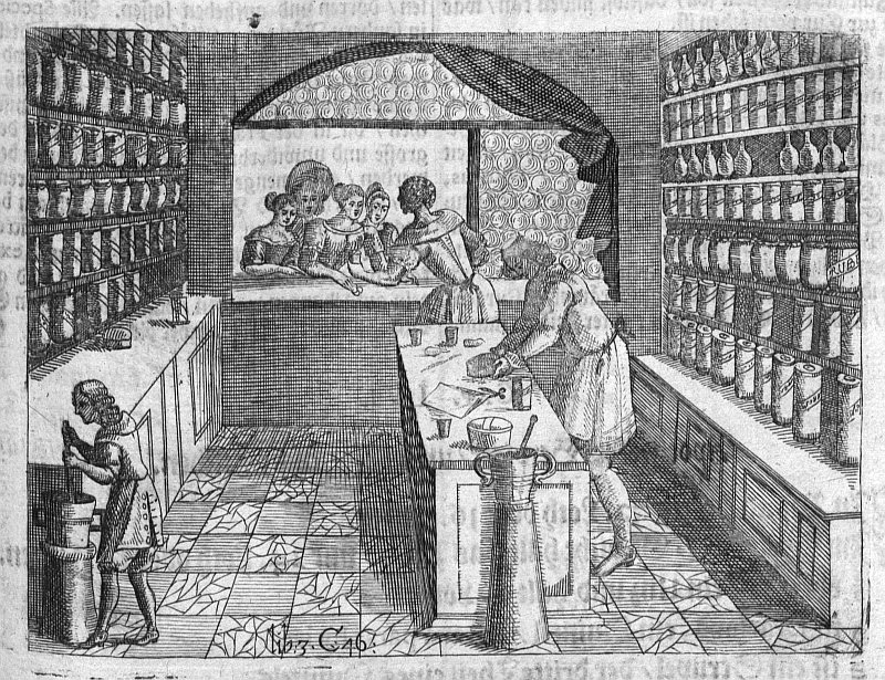 Original image description from the Deutsche FotothekMedizin & Apotheke